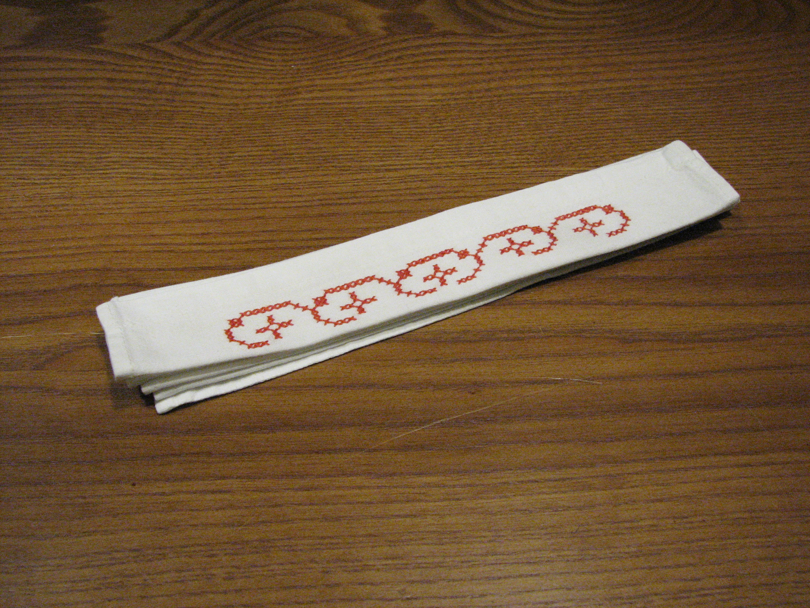 Lavabo towel (Catholic liturgy)